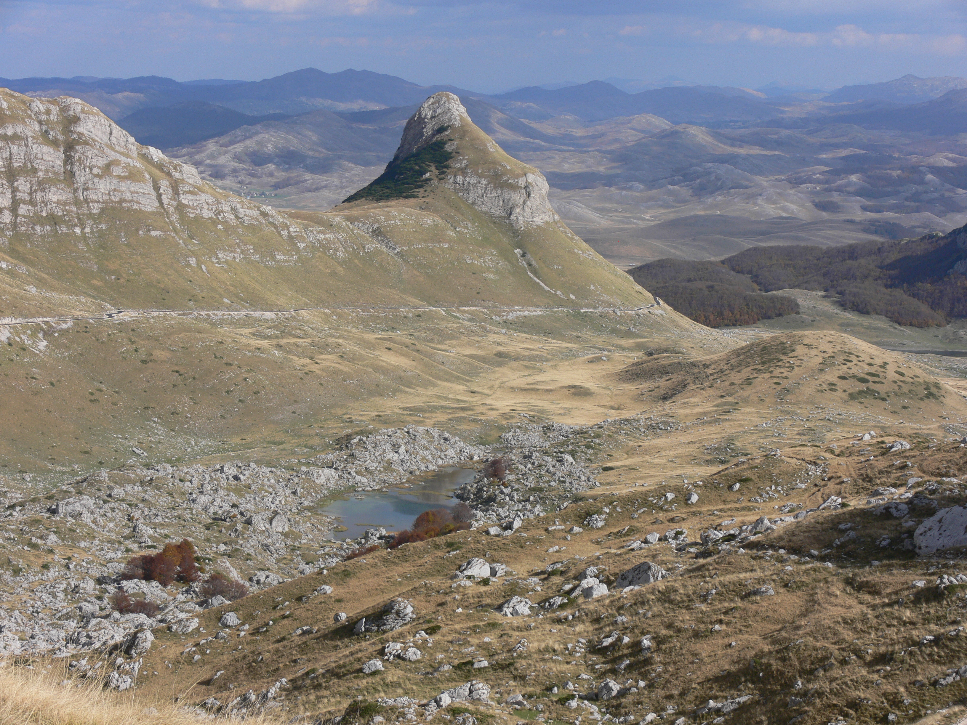 Peak of Stožina (1905m) above Valovito jezero lake, on the road to the moutiain pass of Durmitor sedlo.